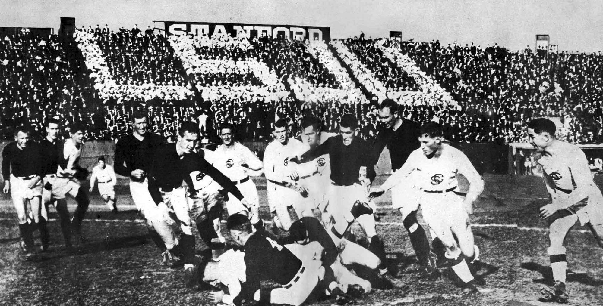 The Big Game, Stanford v Santa Clara. Because of the Golden Bears (Cal) had dropped rugby.